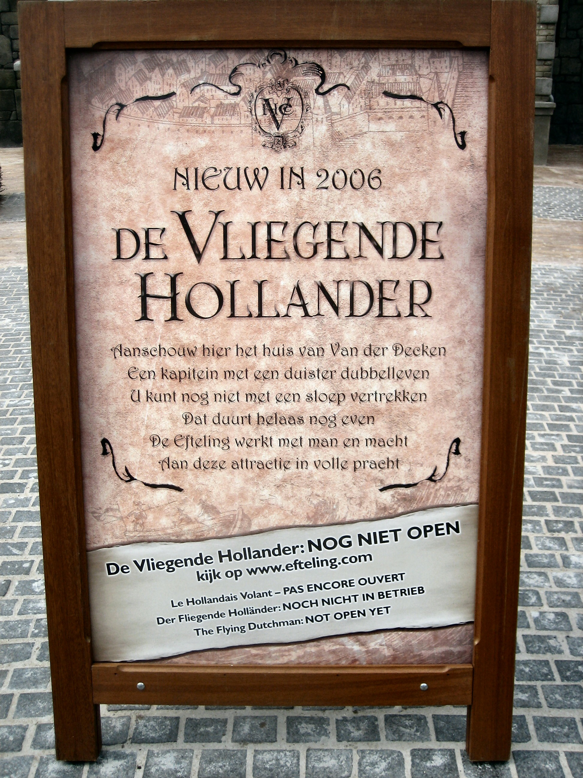 Vliegende Hollander (Flying Dutchman) De Efteling Kaatsheuvel The Netherlands Photo taken by Hullie Sunday 23 April 2006